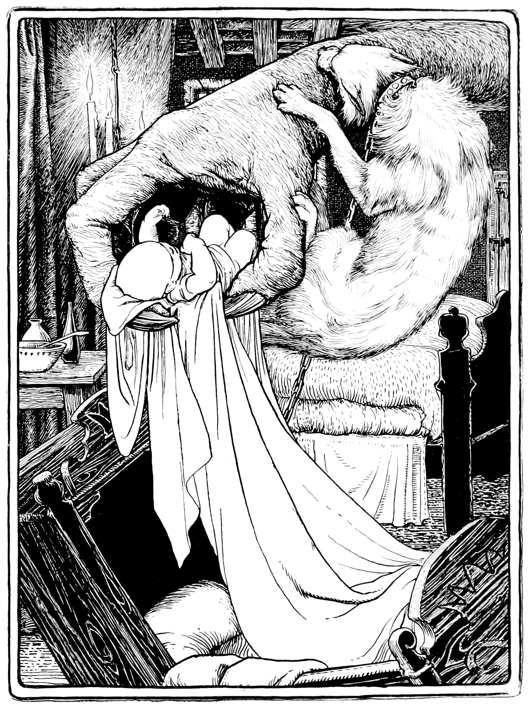 Scan of illustration on page of book in a series of fairy tales.